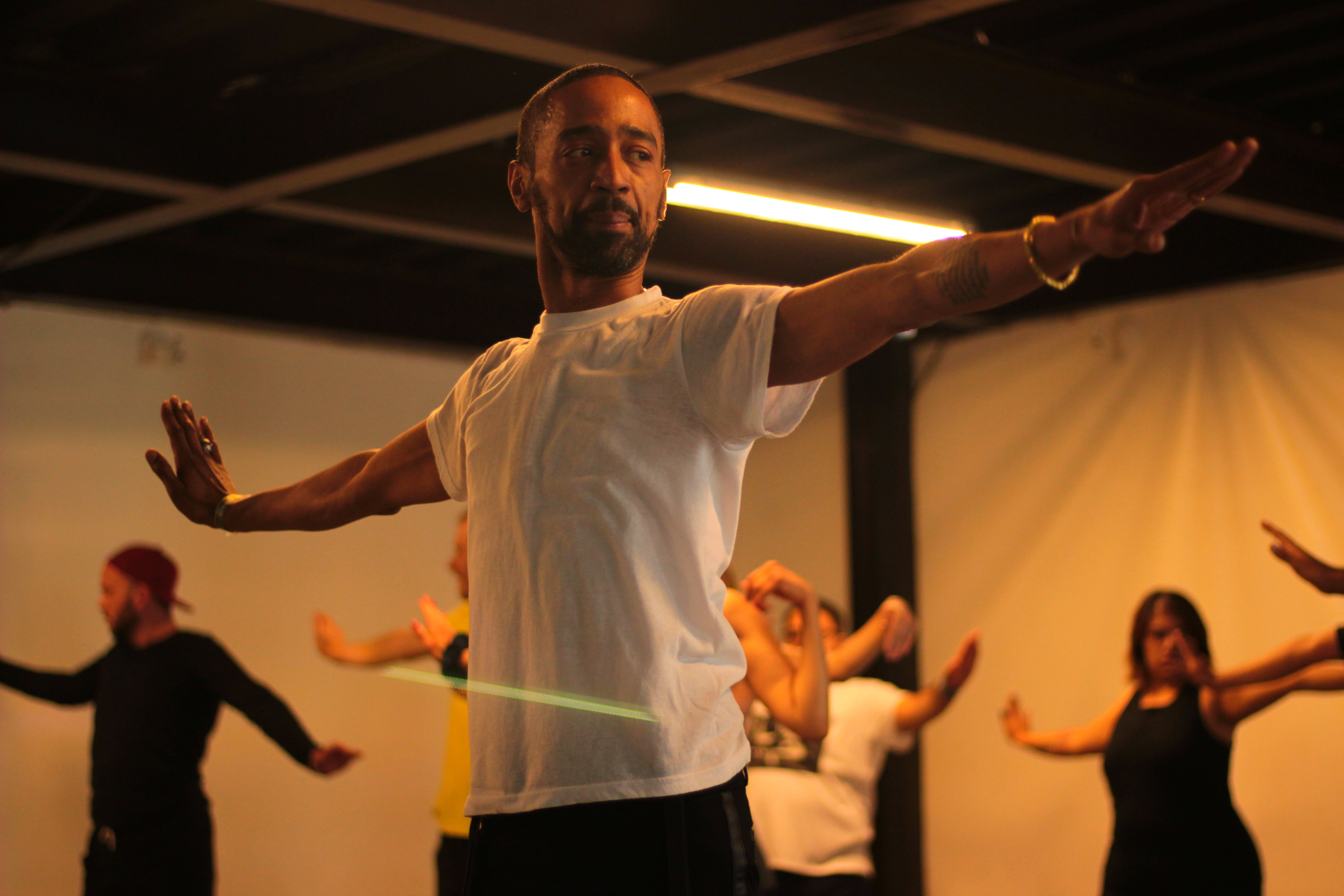 José Xtravaganza giving a class in Mexico City on 2017.